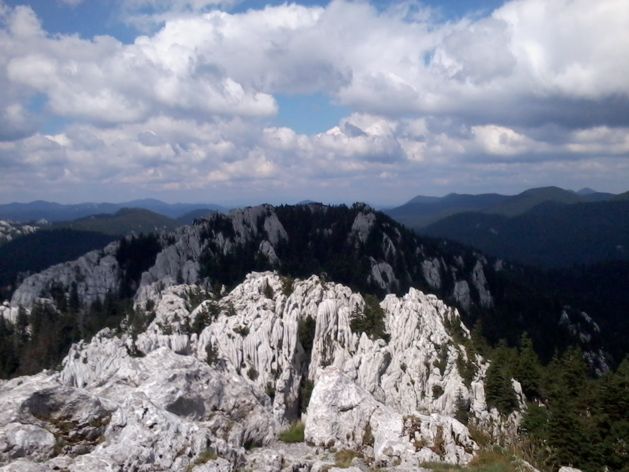 on the top of Bijele stijene